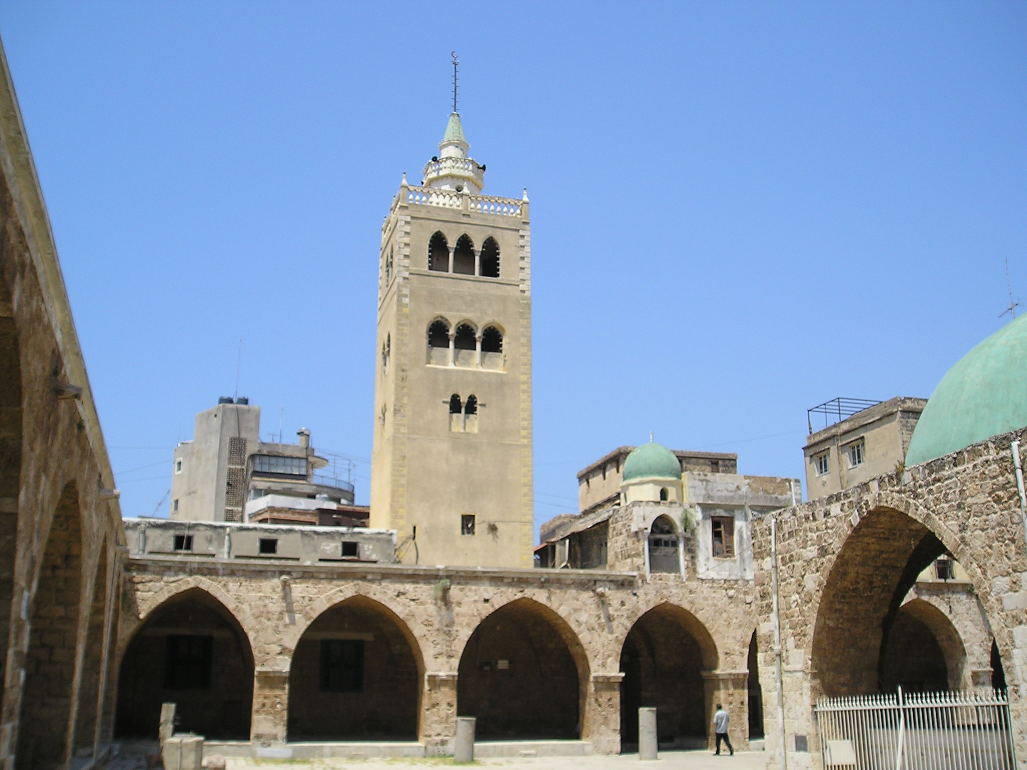 Tripoli, Lebanon - a Lombard style minaret at the northern entrance into the Great MosqueSlovenščina: Tripoli, Libanon - minaret v lombardskem slogu nad severnim vhodom v Veliko mošejo